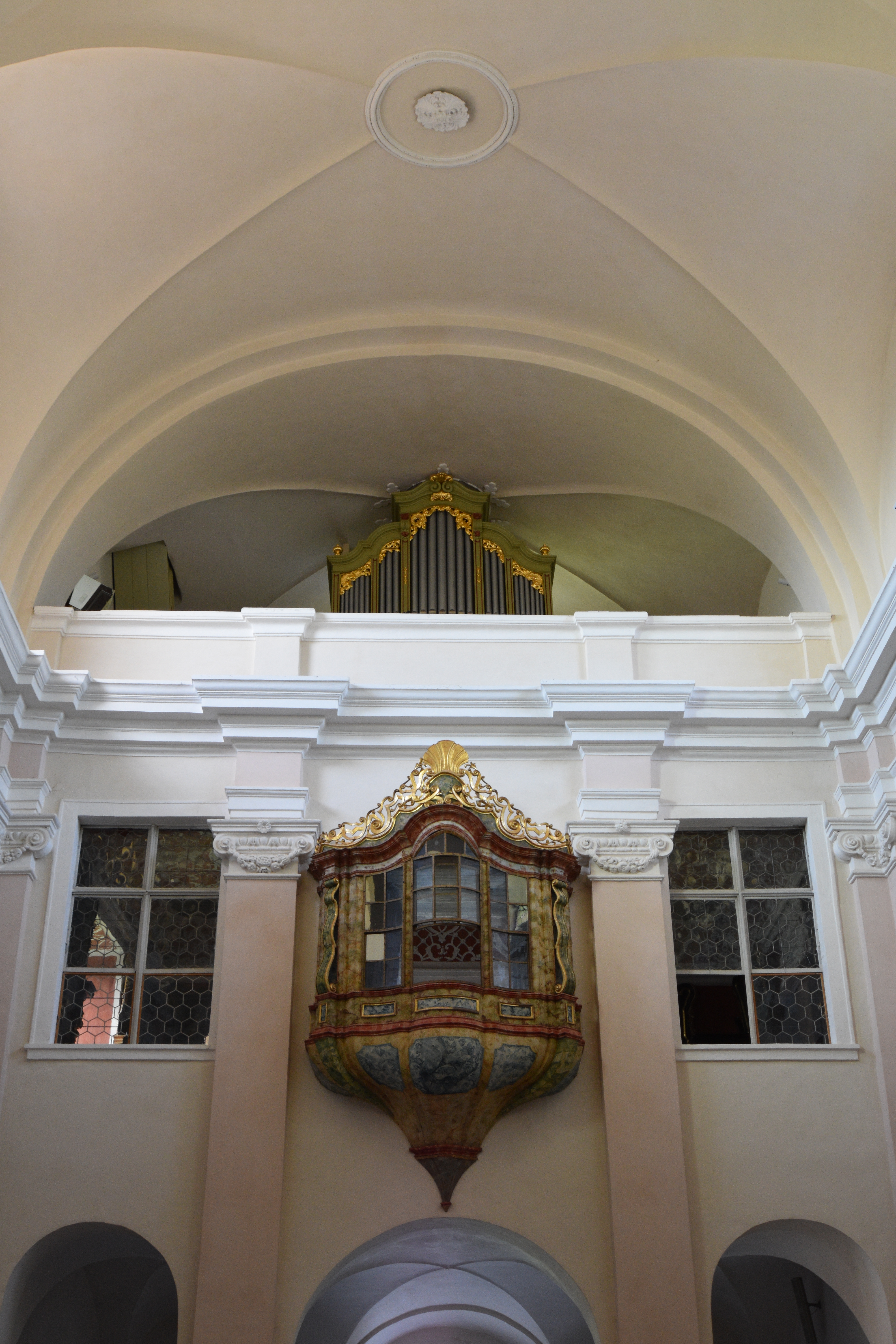 Church hl. Johannes der Täufer, Sankt Johann bei Herberstein - Interior Organs